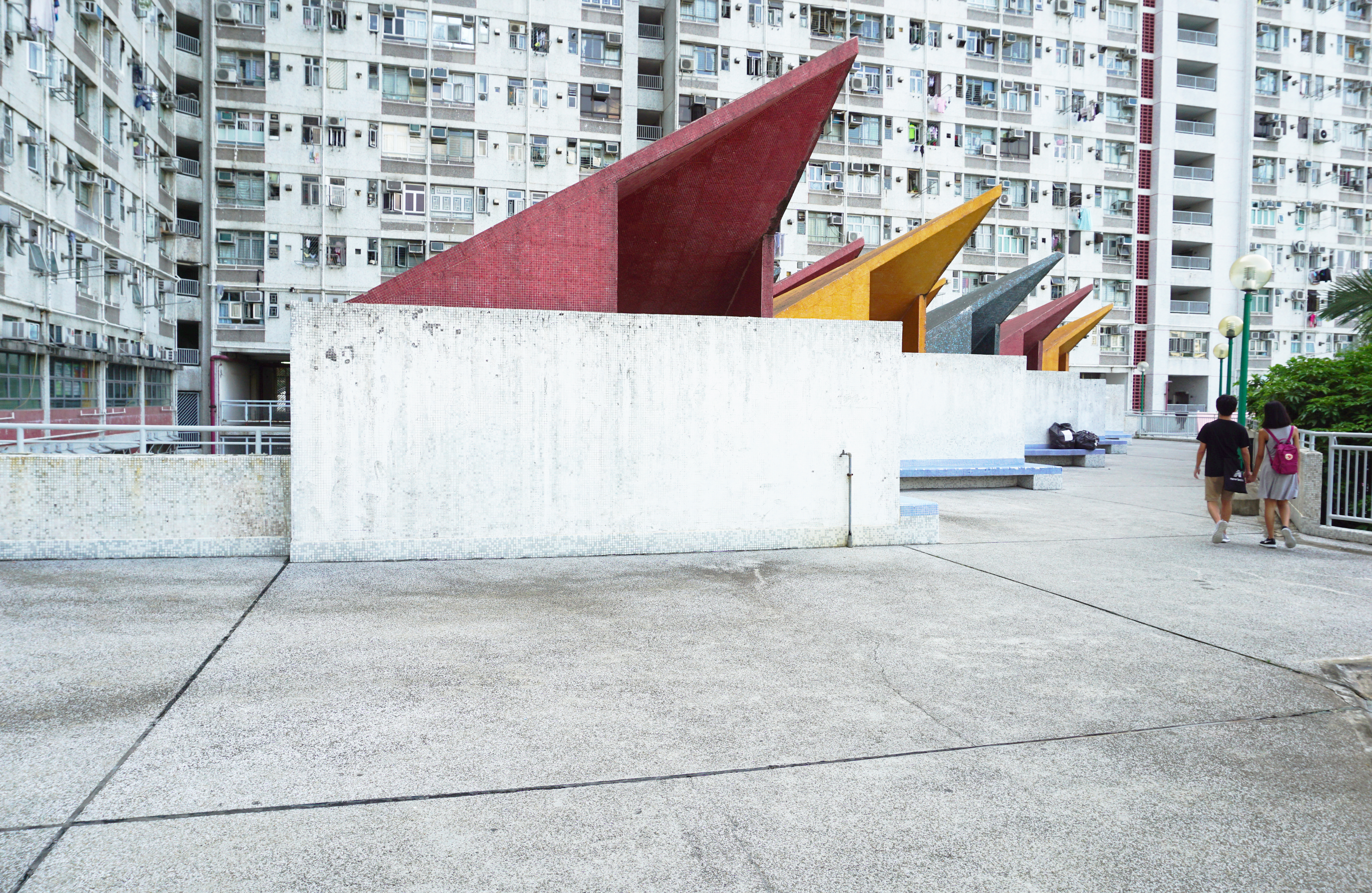 Tsui Lam Estate in Tseung Kwan O, Hong Kong.